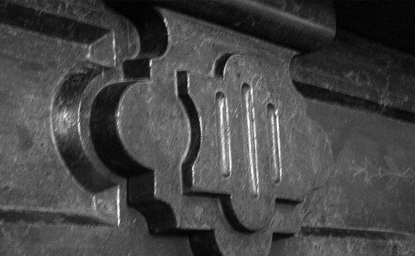 The Griffith Mansion in Yolo / Cacheville CA, built 1886. Now owned by the Tornincasa family. Interior detail.